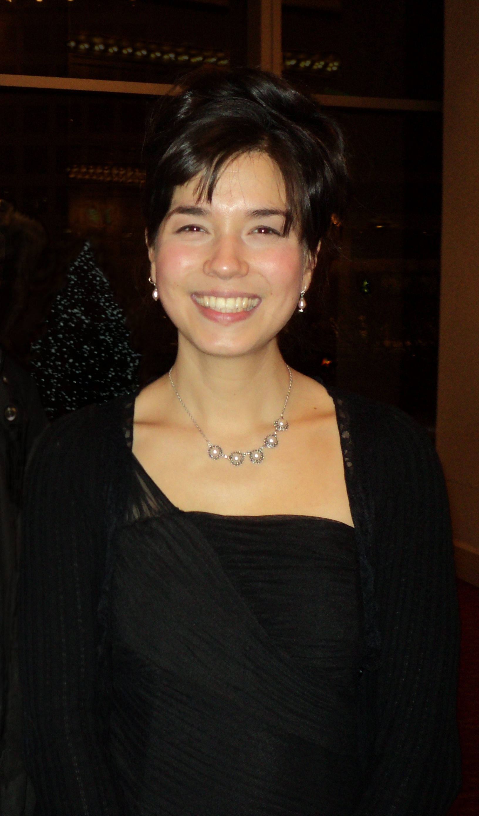 photo of trombonist Megumi Kanda, taken in the atrium of the Marcus Center (Milwaukee, Wisconsin, USA) following her performance with the Milwaukee Symphony Orchestra on 2011-01-14